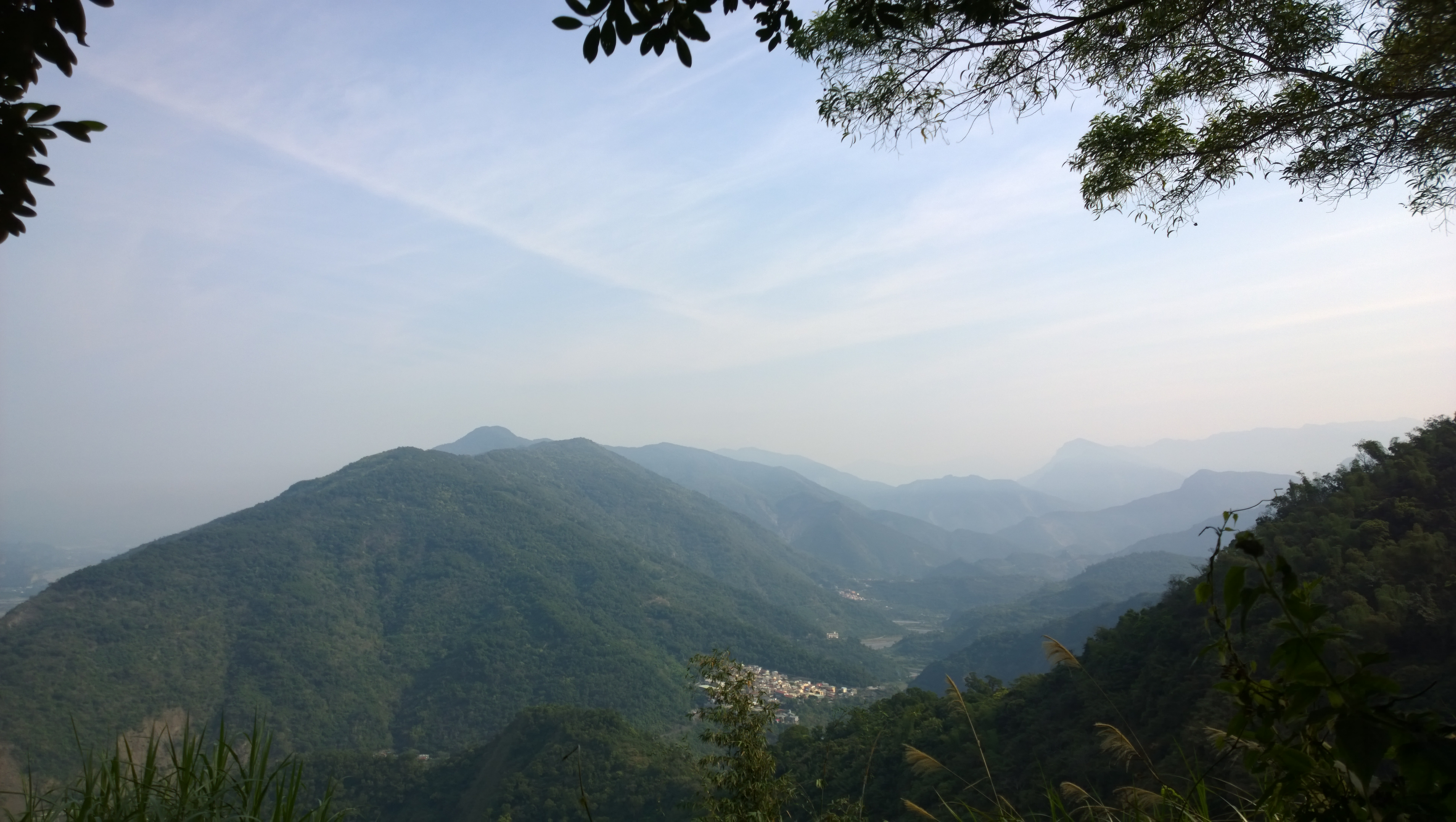 Weiliao Mountain